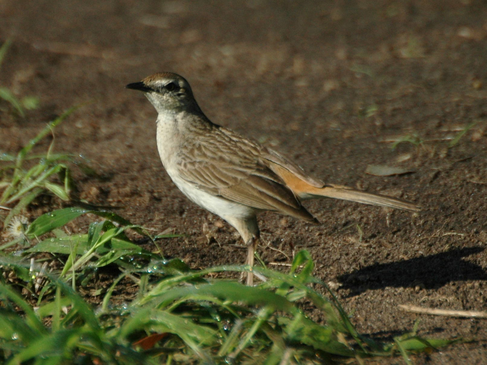 Rufous Songlark (Cincloramphus mathewsi) Samsonvale Cemetery, SE Queensland, Australia